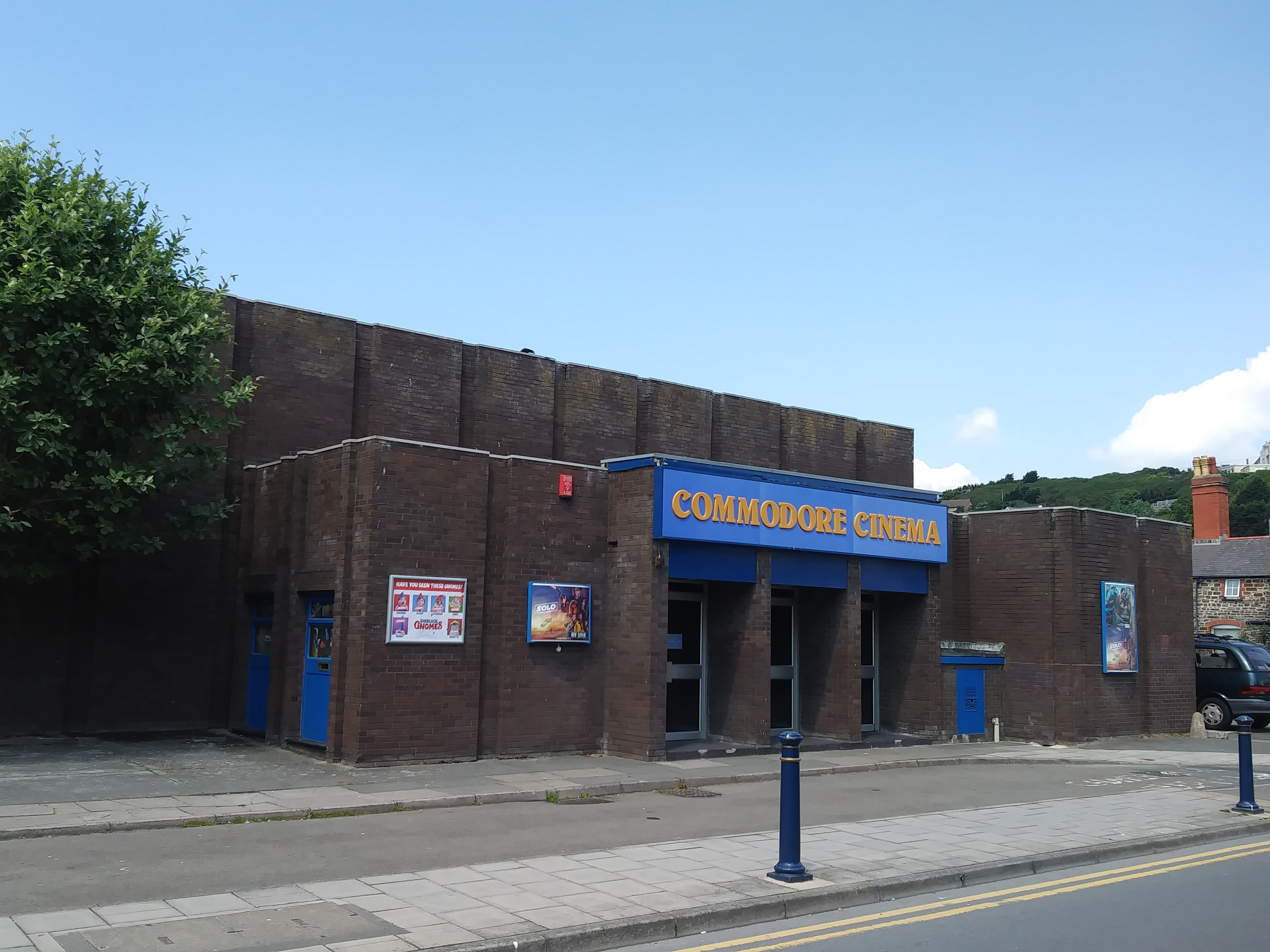 Commodore Cinema, Aberystwyth